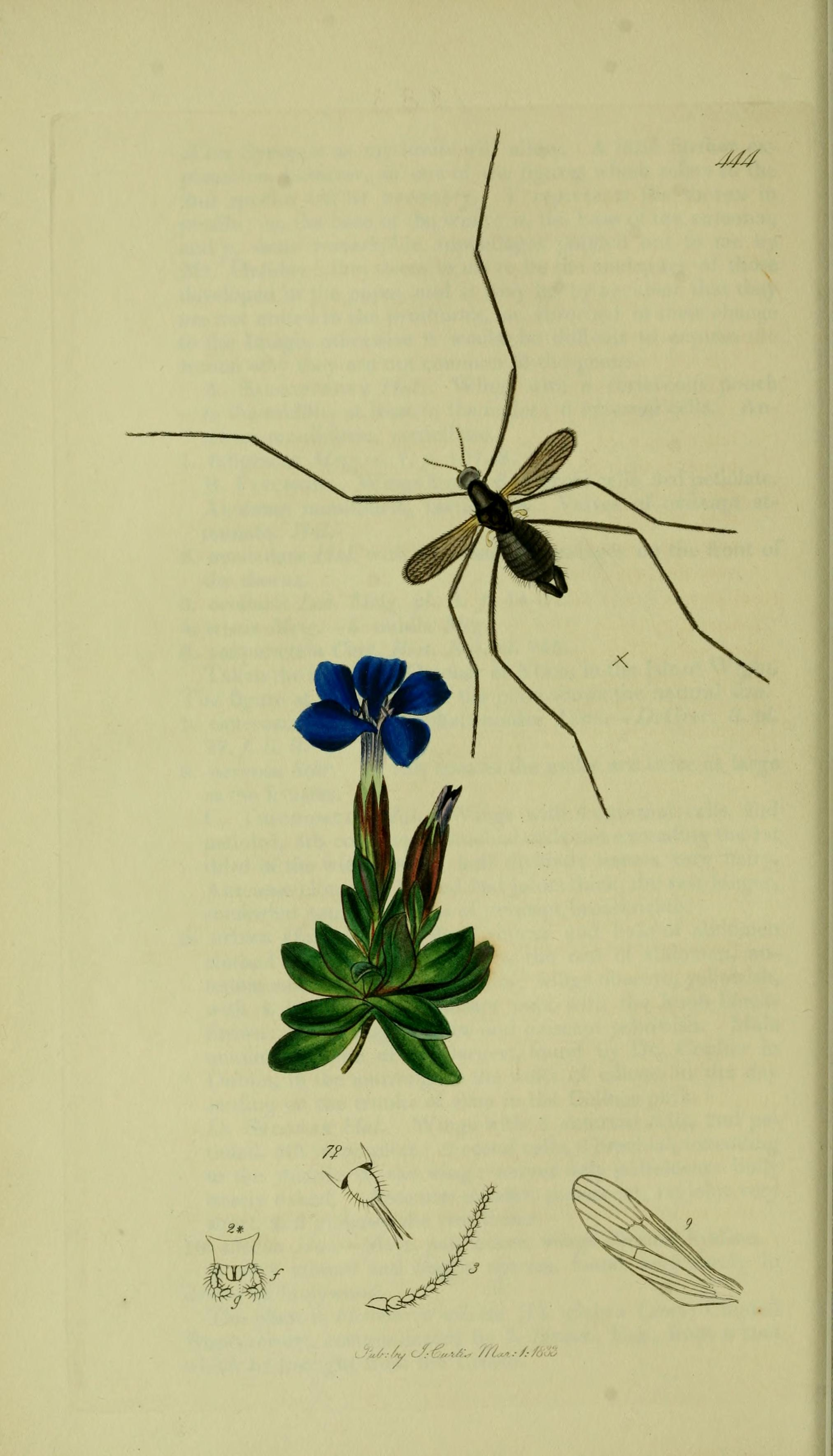 John Curtis British Entomology (1824-1840) Folio Diptera: Molophilus brevipennis = Molophilus ater (Short-winged Mountain Gnat).The plant is Gentiana verna (Spring Gentian)